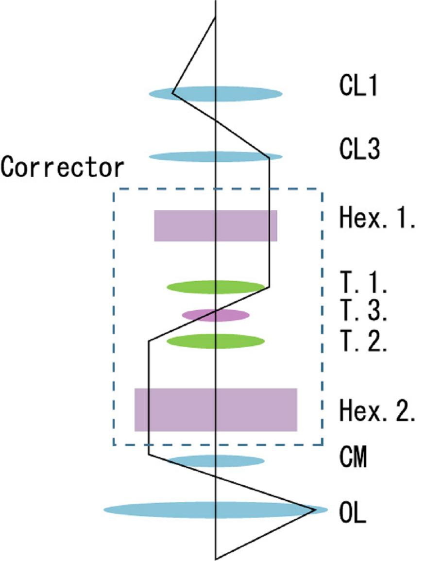 Schematic diagram of a STEM with an aberration corrector in the illumination part